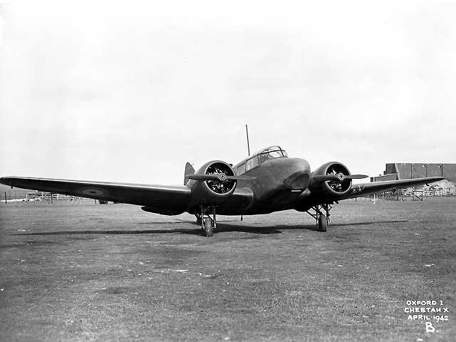 Airspeed AS.10 Oxford